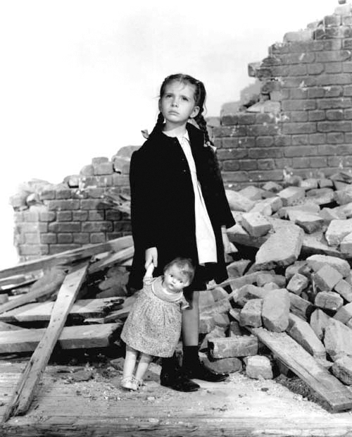 Promotional photograph of actress Margaret O'Brien in the 1942 film Journey for Margaret